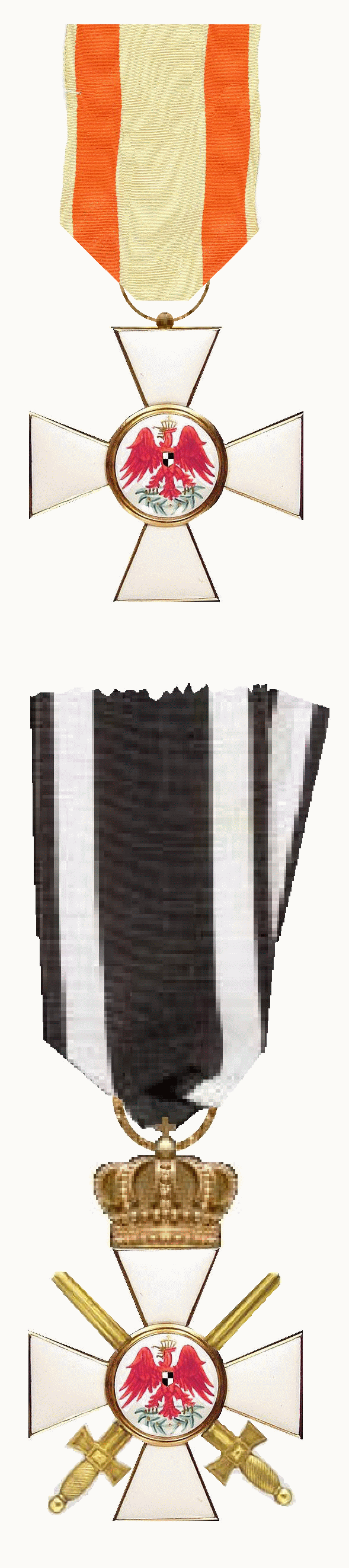 Prder of the Red Eagle Prussia